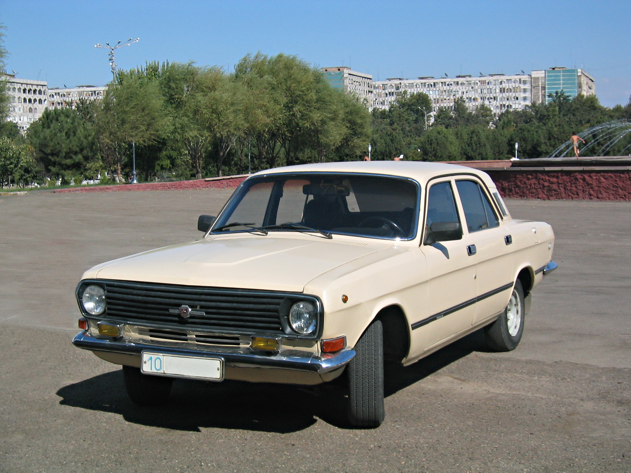 Volga GAZ 24-10